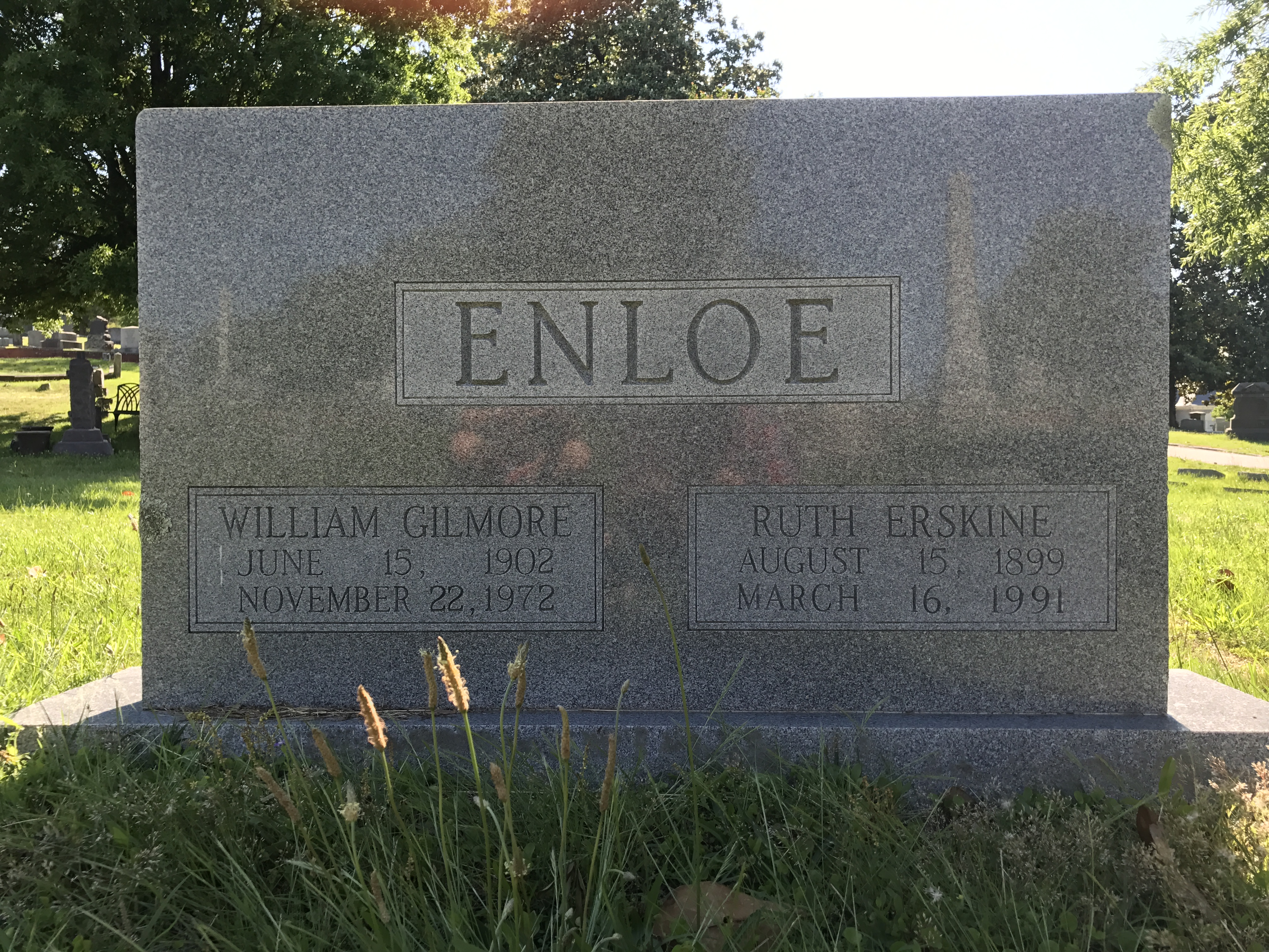 Headstone of William G. Enloe in Oakwood Cemetary, Raleigh